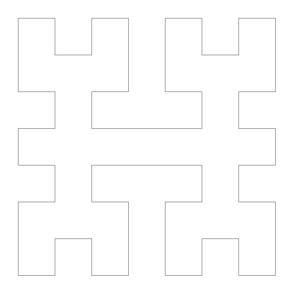 Hilbert Curve L2